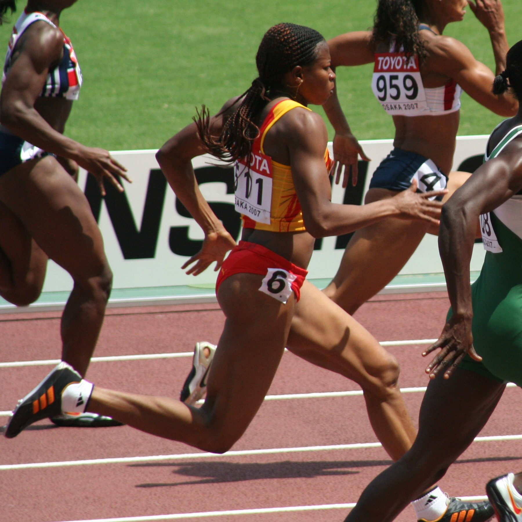 World Athletics Championships 2007 in Osaka - Vida Anim (no. 511) running 100 meters during her first round heat.